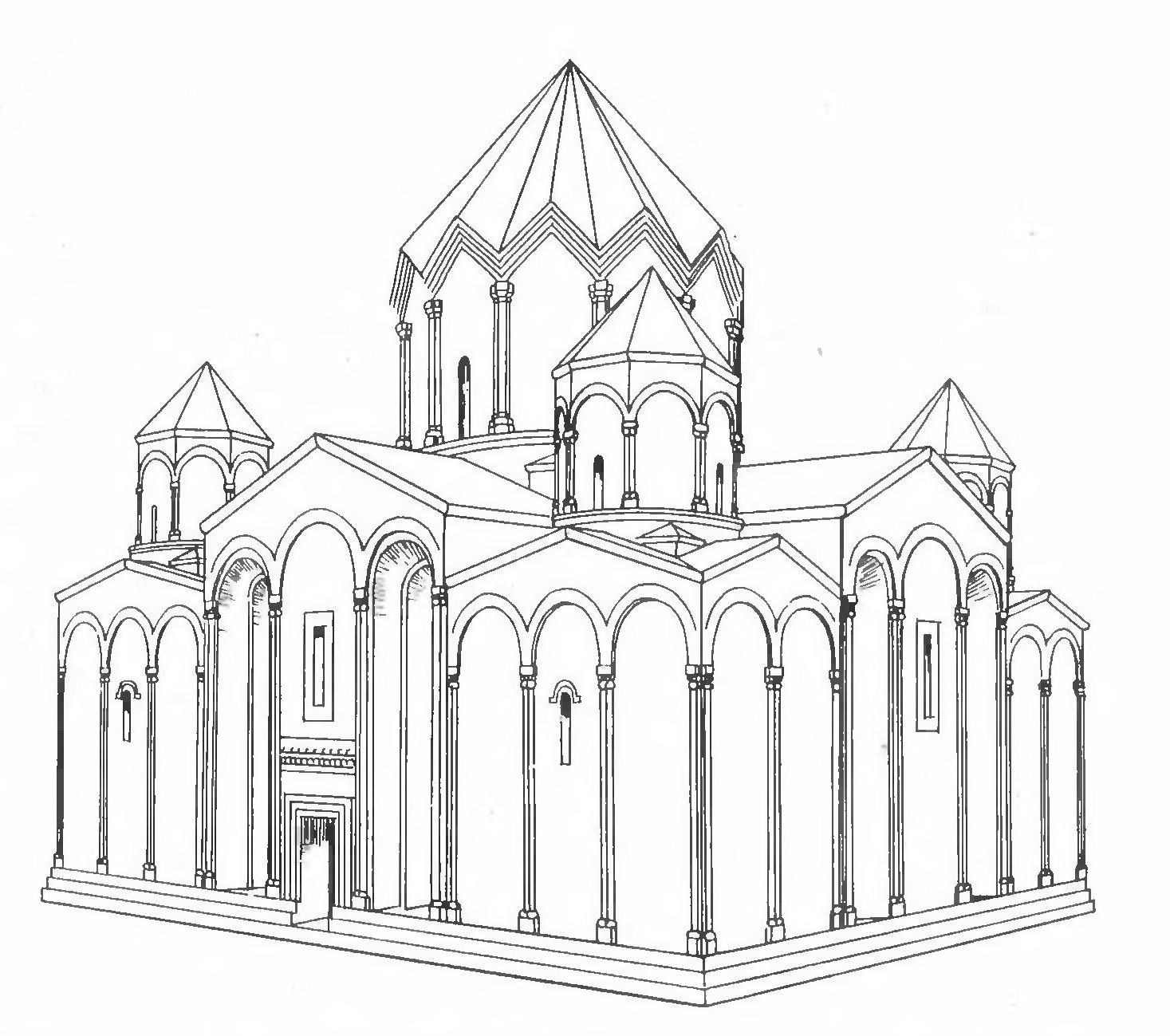 Reconstruction view of Araqeloc church in Ani